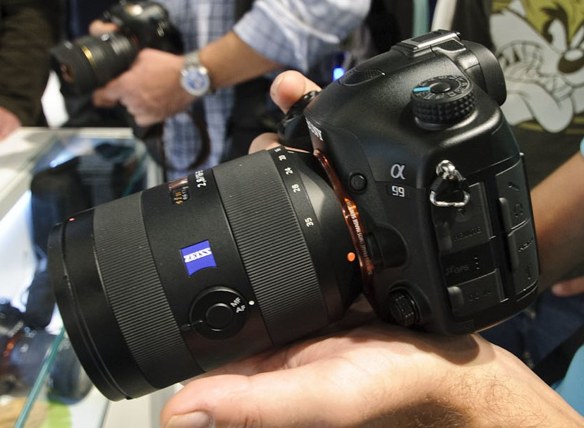 Sony Alpha SLT-A99 camera with Zeiss Vario-Sonnar T* 16-35mm f/2.8 ZA SSM lens at Photokina show, Cologne.